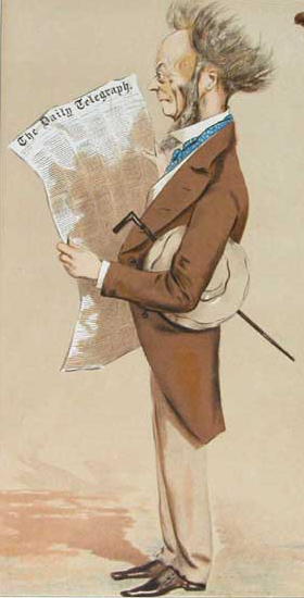 Caricature of Walter Montagu Douglas Scott, 5th Duke of Buccleuch. Caption read "The Governing Classes".